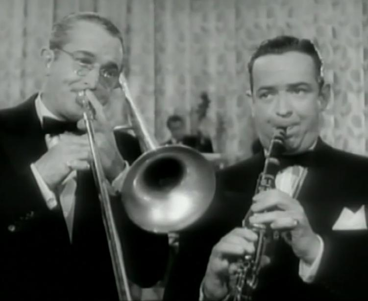 Tommy & Jimmy Dorsey in The Fabulous Dorseys (cropped screenshot)